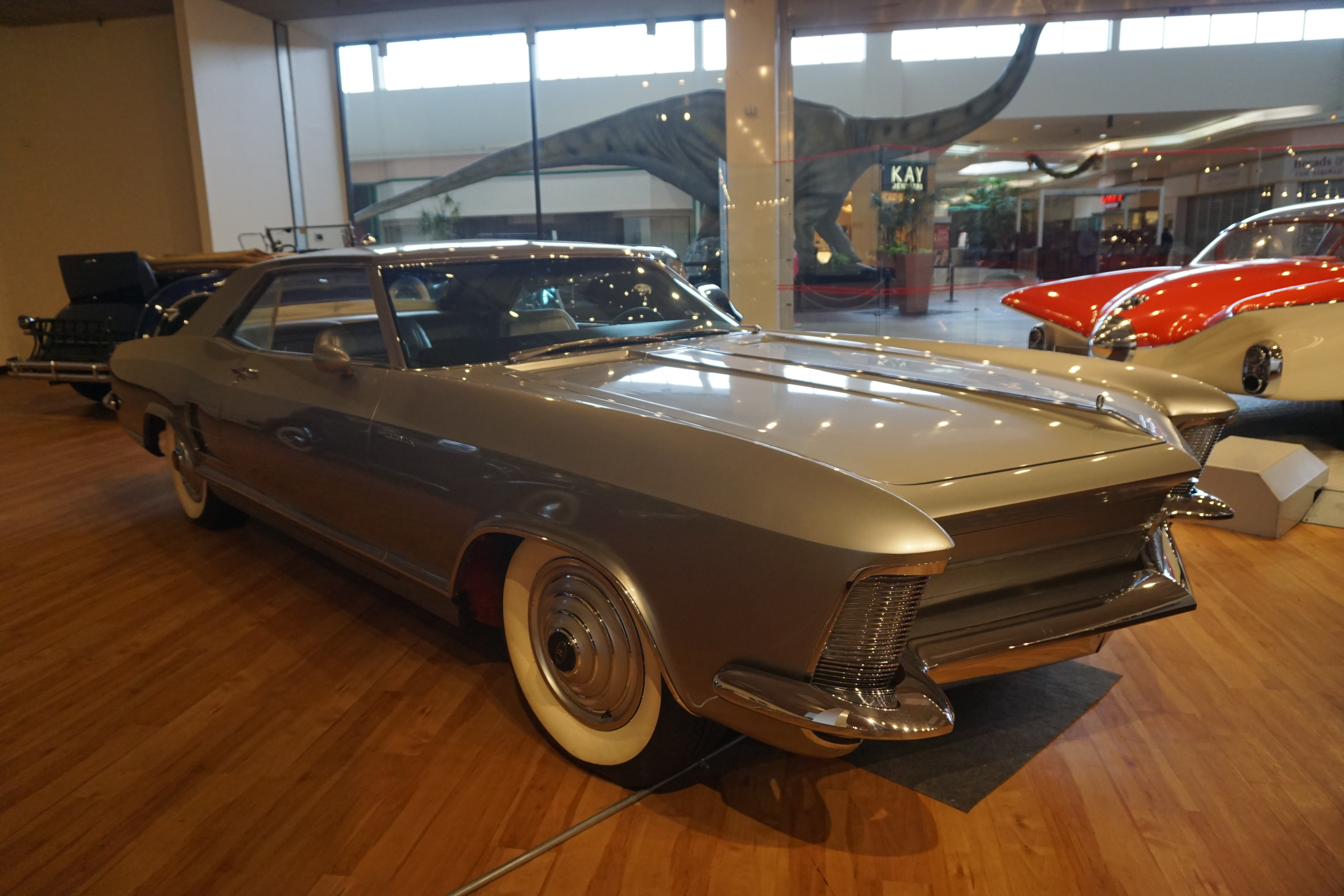 The 1963 Buick Silver Arrow at the Sloan Museum at Courtland Center in Burton, Michigan (United States).